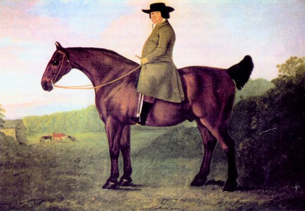 Portrait of Robert Bakewell (1725 - 1795) by John Boultbee (1753 - 1812), in Leicester Museum, England